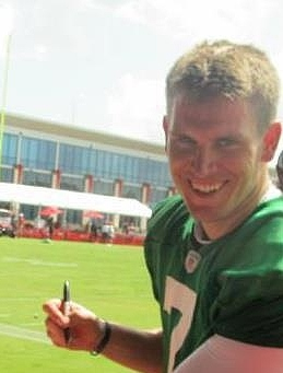 Tampa Bay Buccaneer QB Brett Ratliff with a big fan.